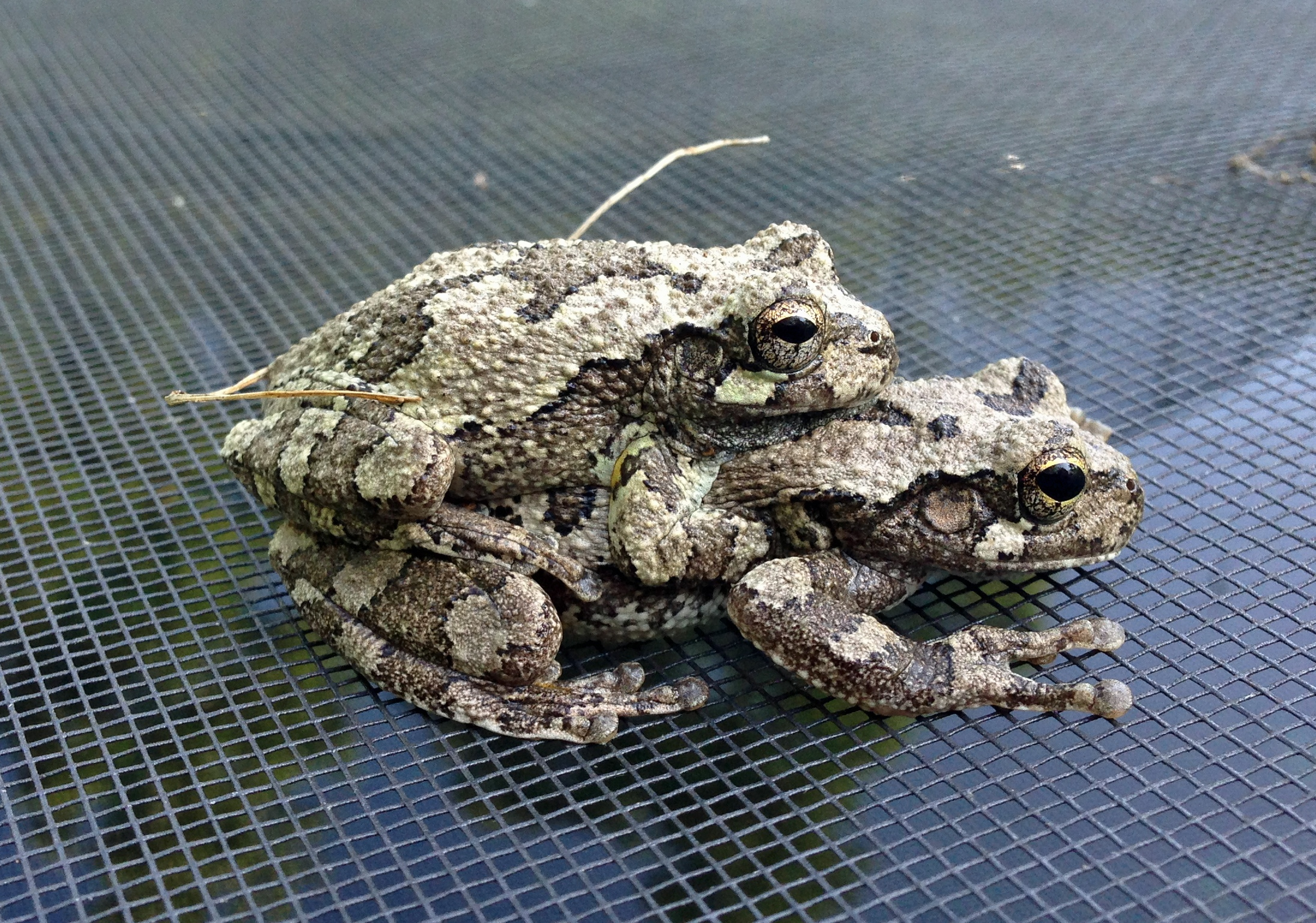 Two gray treefrogs (Hyla versicolor) in amplexus in Tyson Research Center, Missouri. Male is on top, female on bottom. Note that that they are in amplexus on top of a screen and separated from the water below.